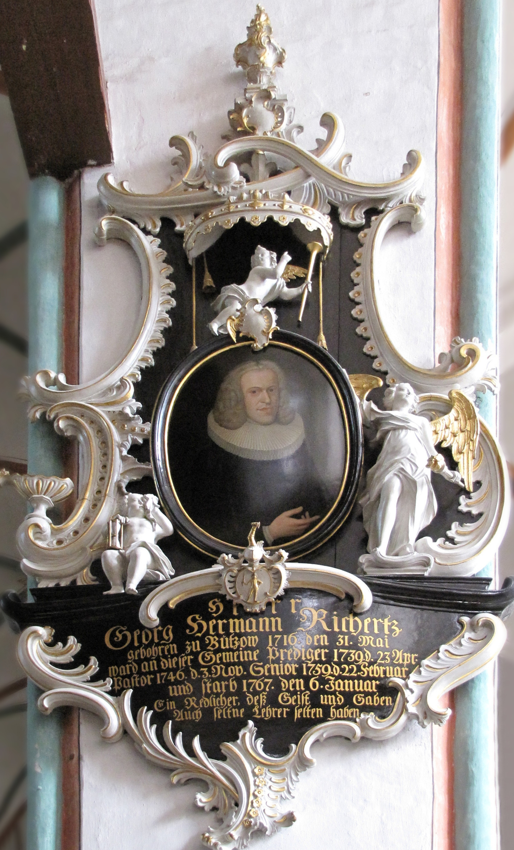 Epitaph for Georg Hermann Richerz (1716–1767) in St. Jakobi, Lübeck